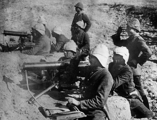 Turkish machine gun position with German officers during the fighting at the Dardanelles, Turkey. Turkey was an ally of the Central Powers (Germany and Austria-Hungary) in World War I. 1914 - 1918.